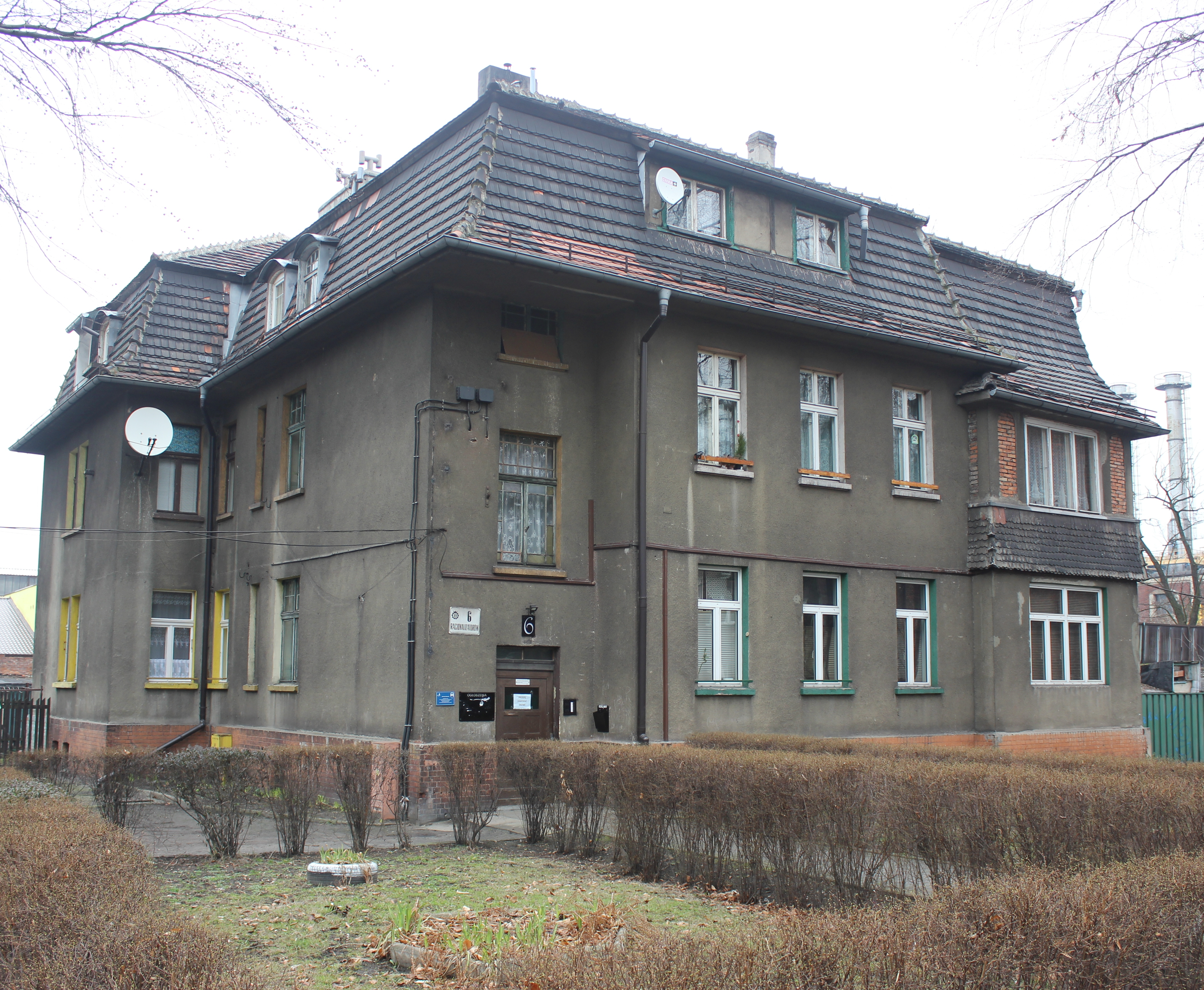 Chorzów - Bismarckhütte workers' housing estate dating back from 19th/20th century, 6 Racjonalizatorów str. - a building built in 1909 for administration workers (design Ignatz Grünfeld)